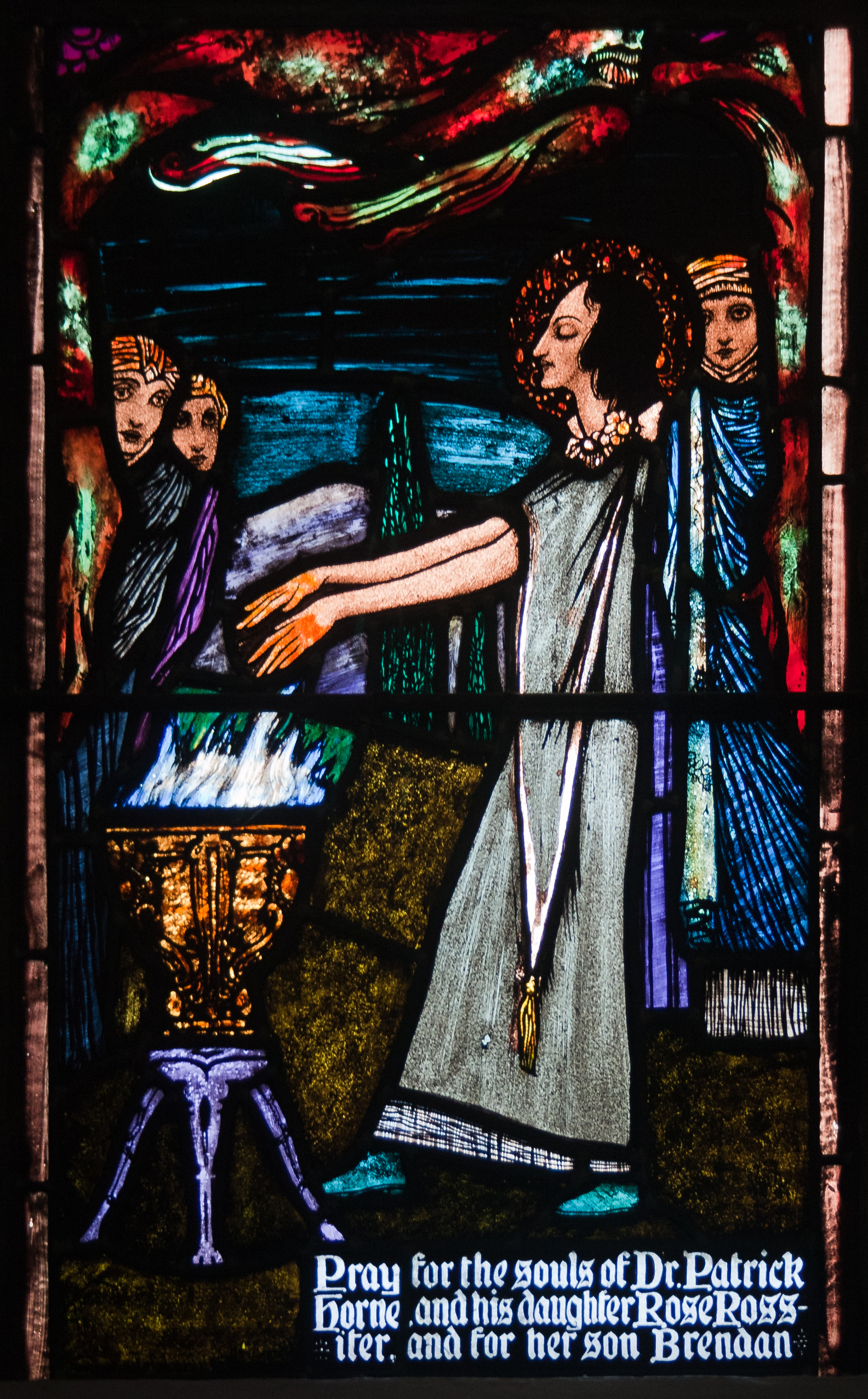 Bottom panel of the left light of the fifth window in the south aisle, depicting St Rose burning her hands in an act of penance. This stained glass window was created by Harry Clarke in 1925. The inscription reads: Pray for the souls of Dr Patrick Horne and his daughter Rose Rossiter, and for her son, Brendan Harry Clarke (1889–1931) Alternative names Henry Patrick ClarkeDescriptionBritish artistDate of birth/death 17 March 1889 6 January 1931 Location of birth/death Dublin ChurAuthority control : Q981851 VIAF: 64809213 ISNI: 0000 0000 7729 3084 ULAN: 500005071 LCCN: n80127749 NLA: 35207551 WorldCat creator QS:P170,Q981851